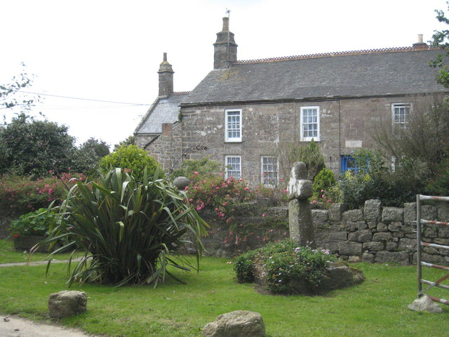 Ancient cross at Kerris Farm